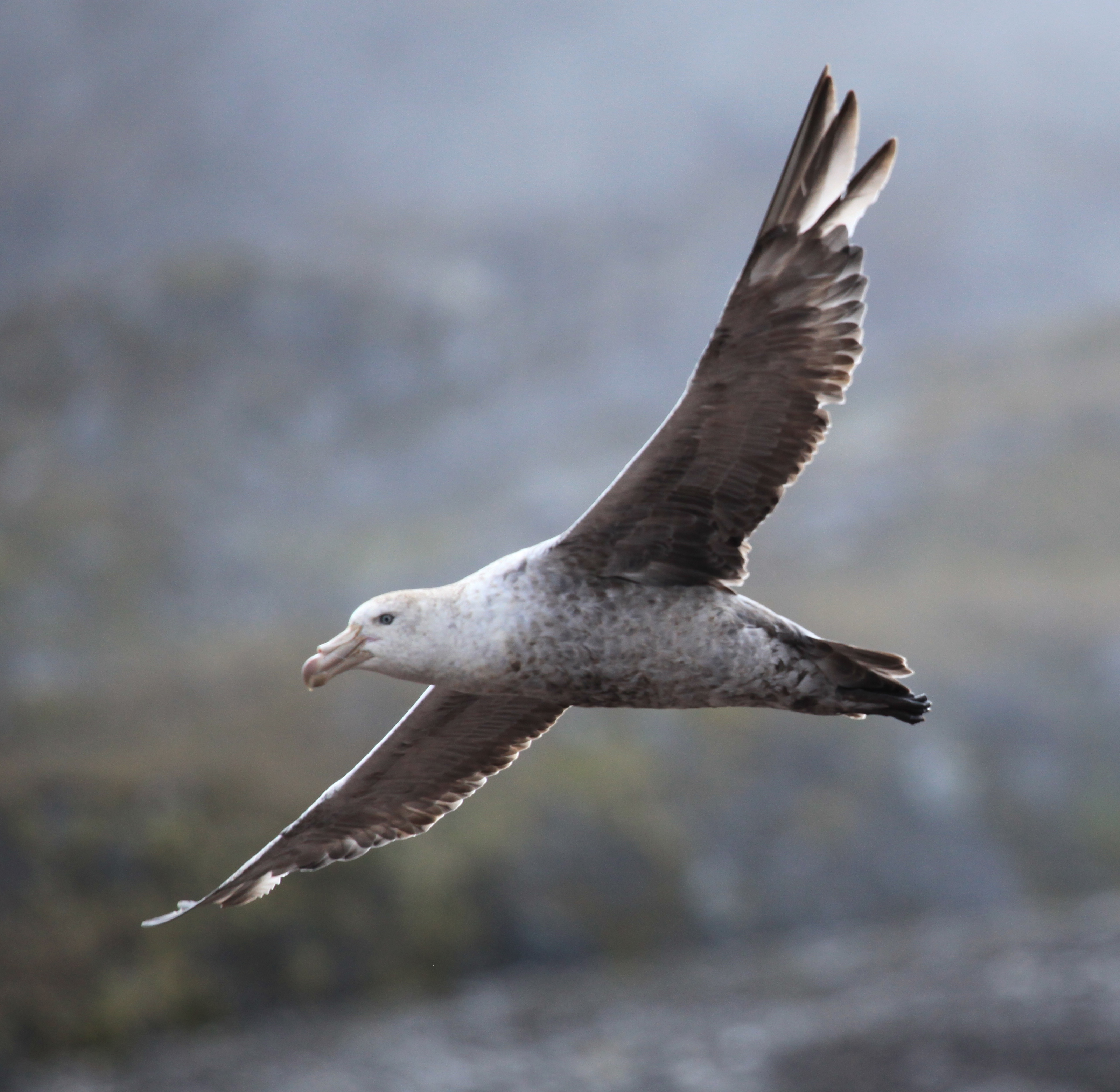 A Northern Giant Petrel flying over Godthul, South Georgia, British Overseas Territories, UK.